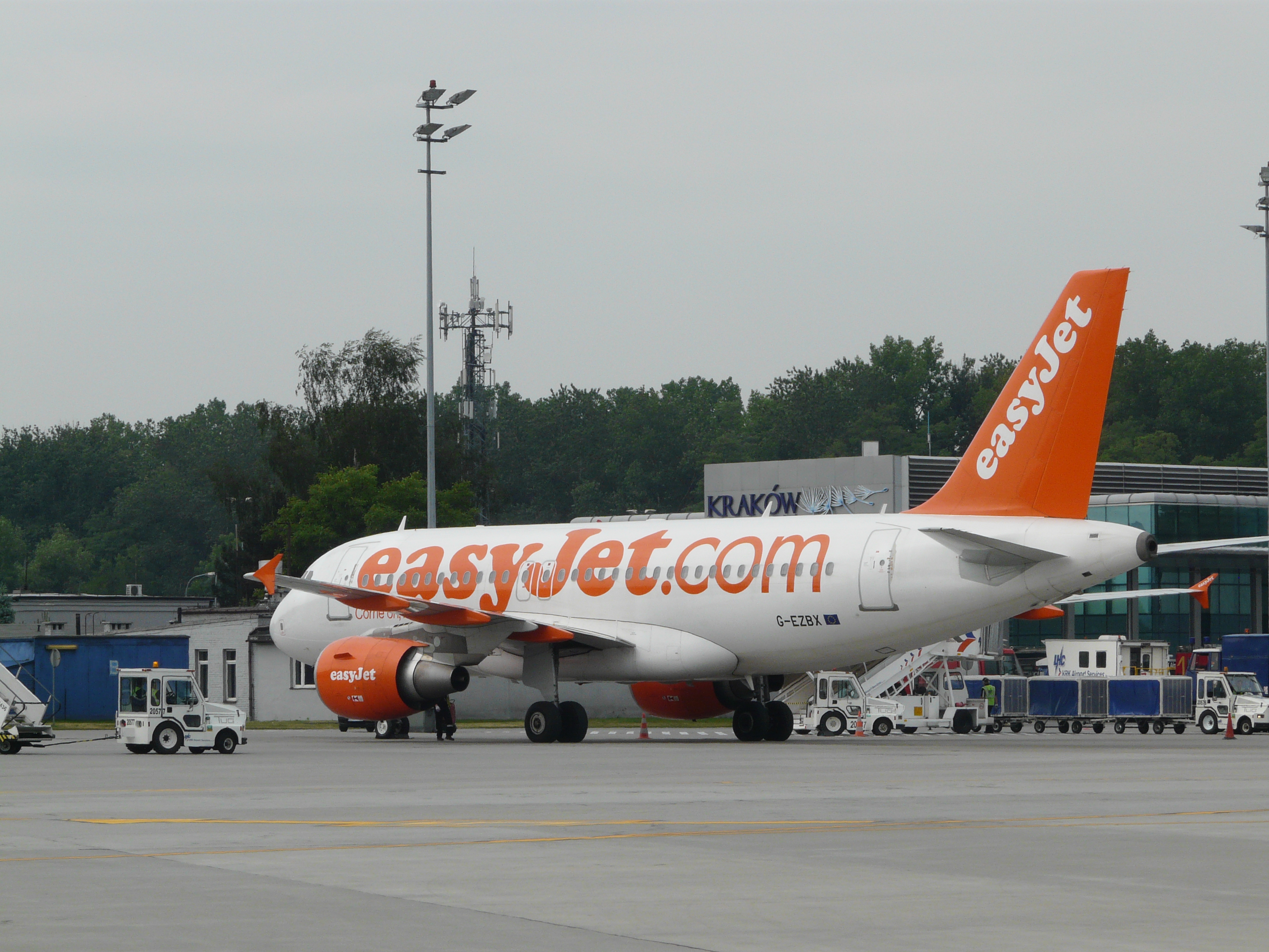 Easyjet Airbus 319 at stand.